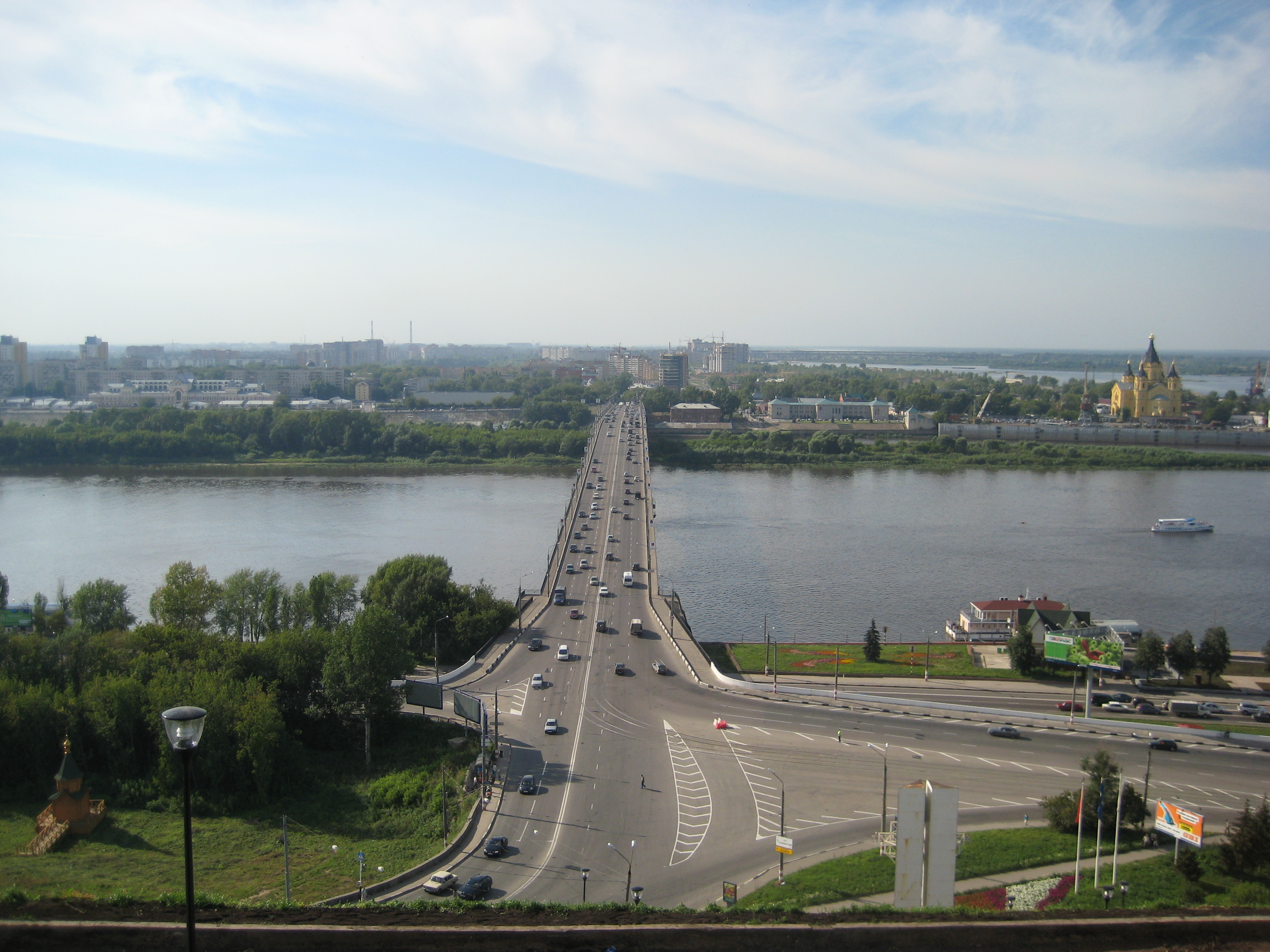 Kanavinskiy bridge, Blagovestchenskaya Square